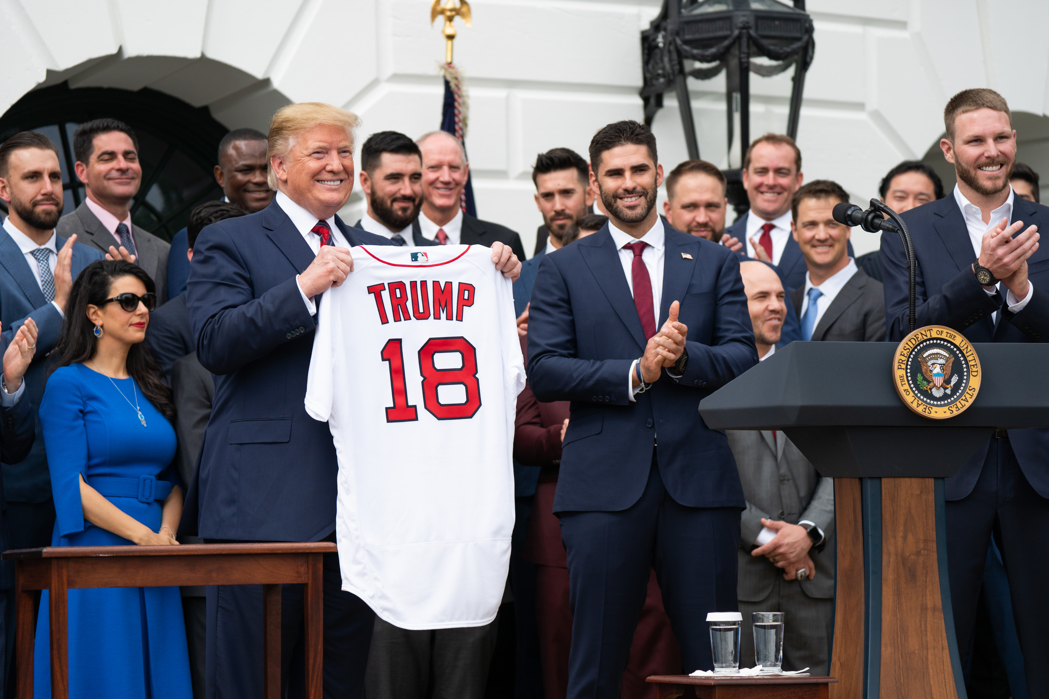 President Donald J. Trump welcomes the 2018 World Series Champion Boston Red Sox baseball team Thursday, May 9, 2019, at ceremonies on the South Portico entrance of the White House. (Official White House Photo by Shealah Craighead)